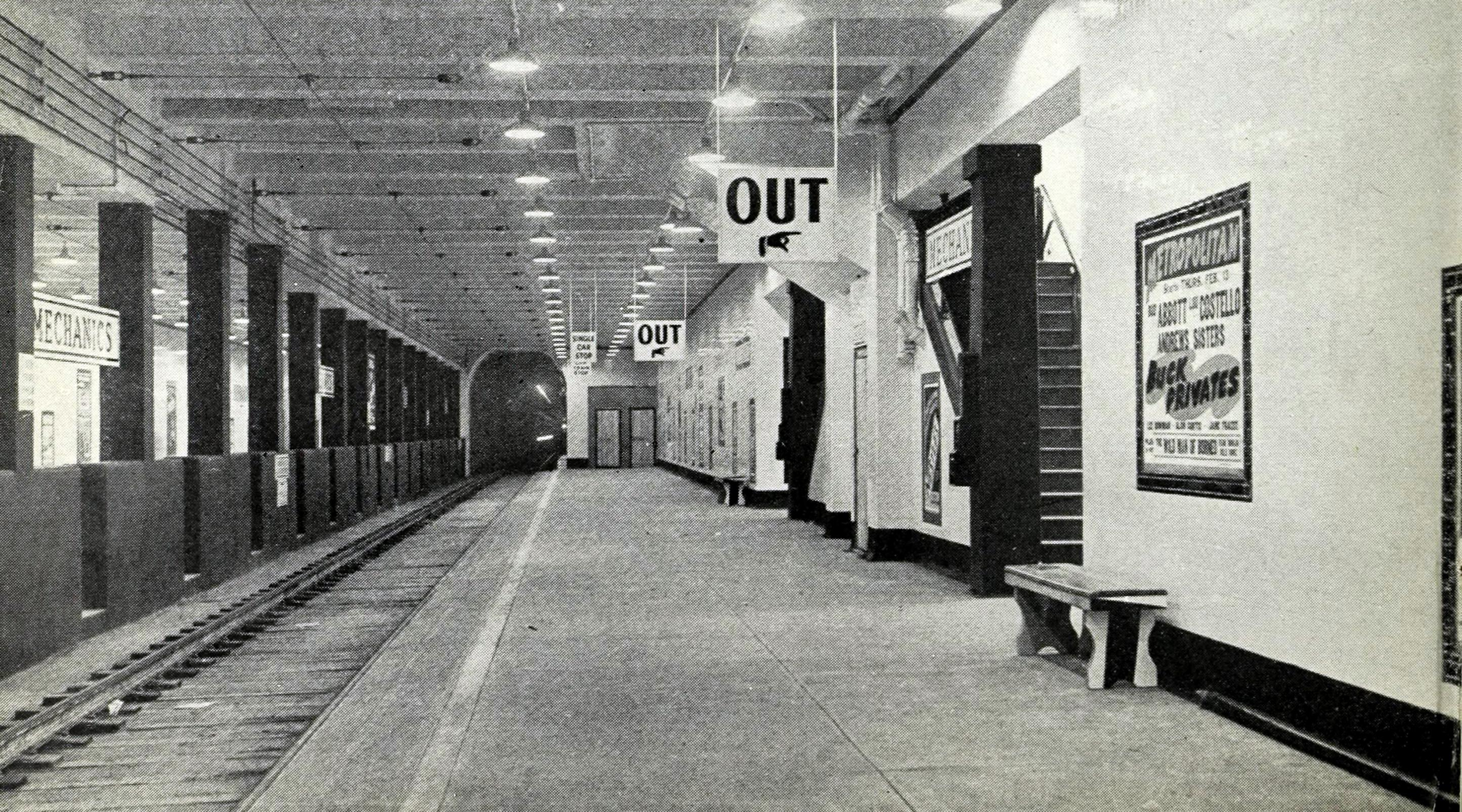 The inbound platform at Mechanics station shortly before opening